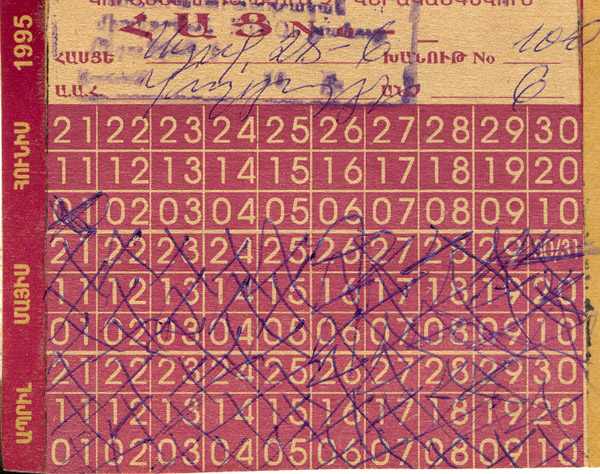 Bread card, as it was in use in Armenia in years 1993-1995.